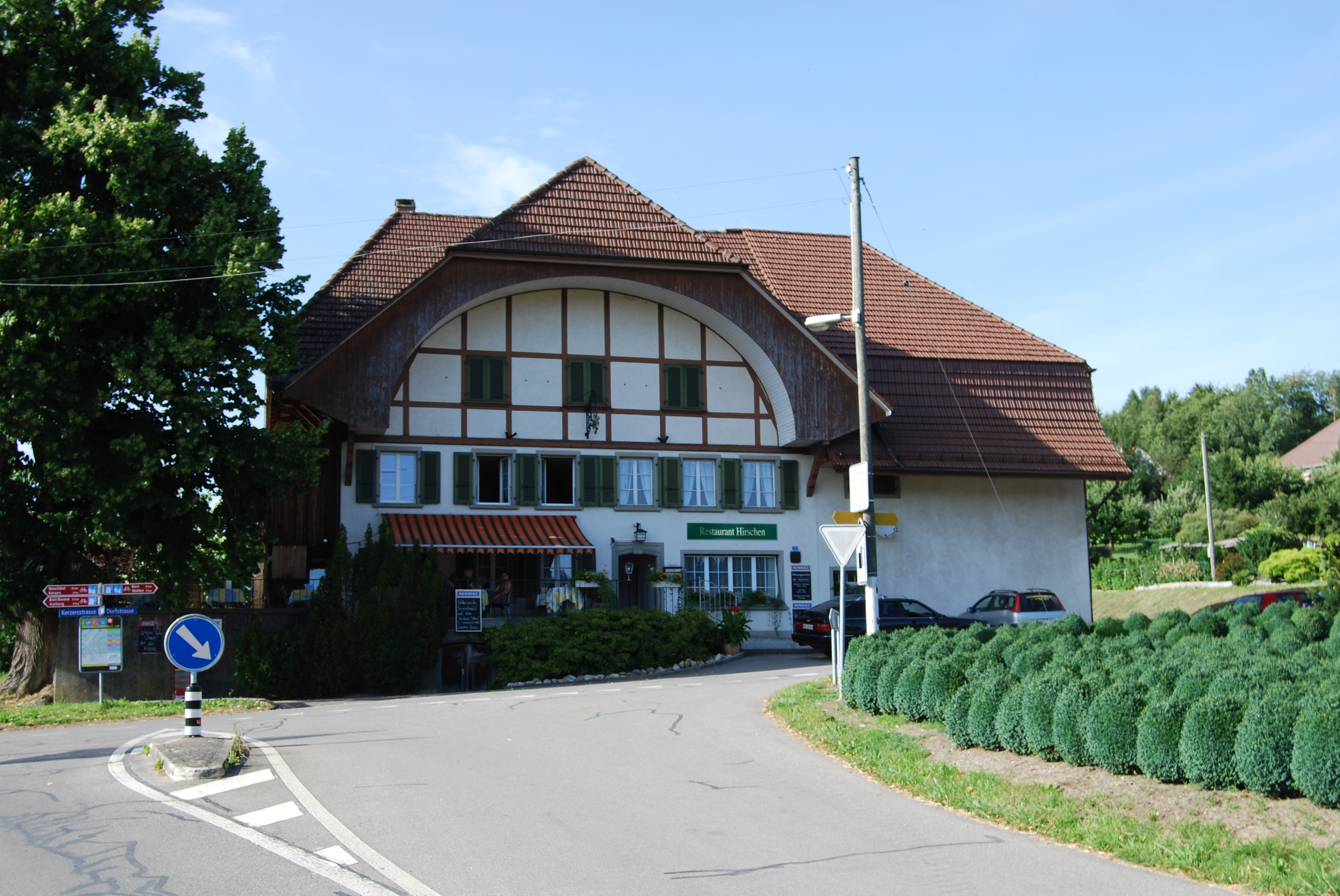 Timber framing house at Golaten, canton of Bern, Switzerland